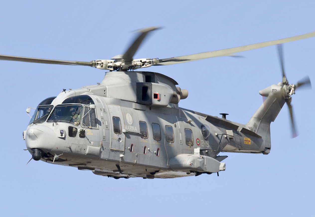 AW-101 Marina Militare